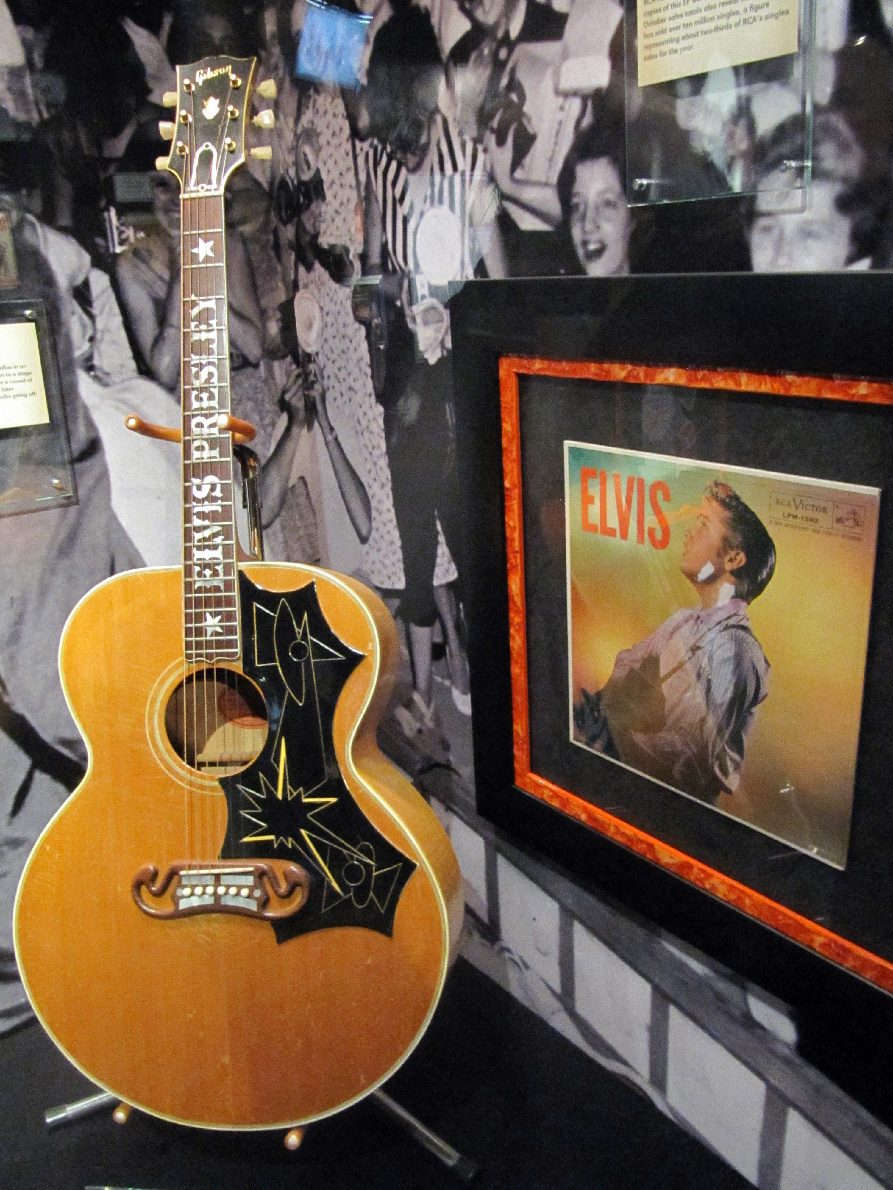 Elvis Presley's Gibson J200, Graceland References James V. Roy. Elvis' 1956 Gibson J200. Scotty Moore The Official Website. "Elvis Presley's 56 Gibson J-200 modified at Scotty's request [1]"